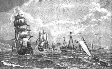 Lightvessel No. XVII Gedser Rev (later name) depicted at tis position in 1896 in Denmark.